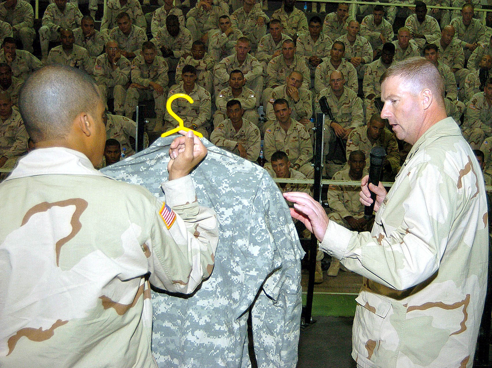 KIRKUK AIR BASE, IRAQ (August 13, 2004) - Sgt. Maj. of the Army Kenneth O. Preston points out features of the new Army Combat Uniform to 2nd BCT, 25th ID (L) Soldiers on Kirkuk Air Base Aug. 13. The ACU will be issued to the entire Army by December 2007.